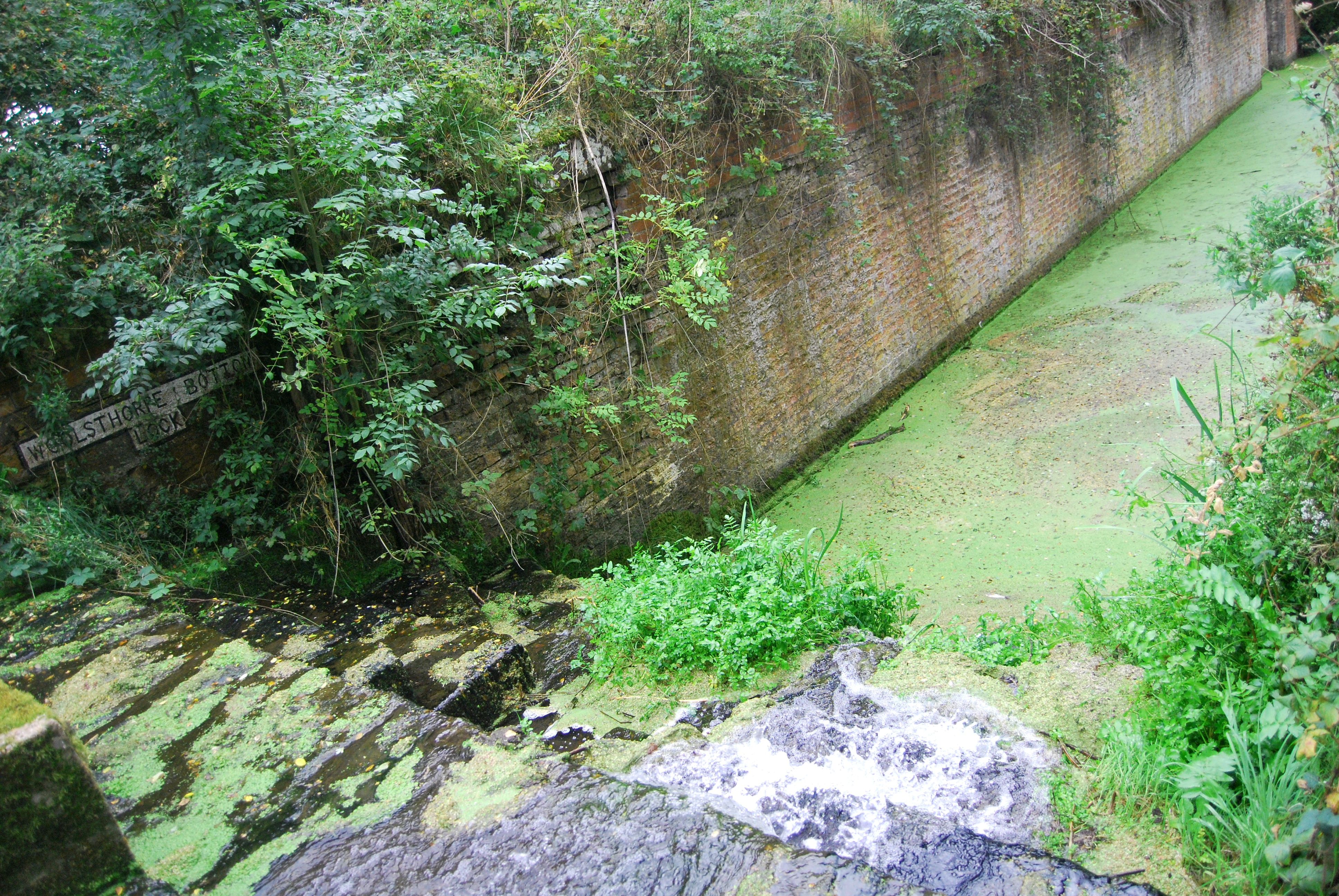 Woolsthorpe Bottom Lack. Inoperative.